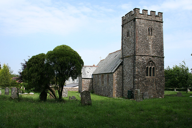 Sheldon: St James’s church. Looking east-south-east. A public footpath runs through the churchyard from north to south